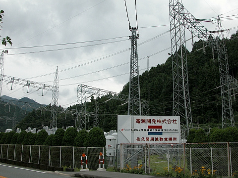 Sakuma Frequency. Converter Station. (Sakuma, Tenryu-ku, Hamamatsu-city, Sizuoka-prefecture, Japan)